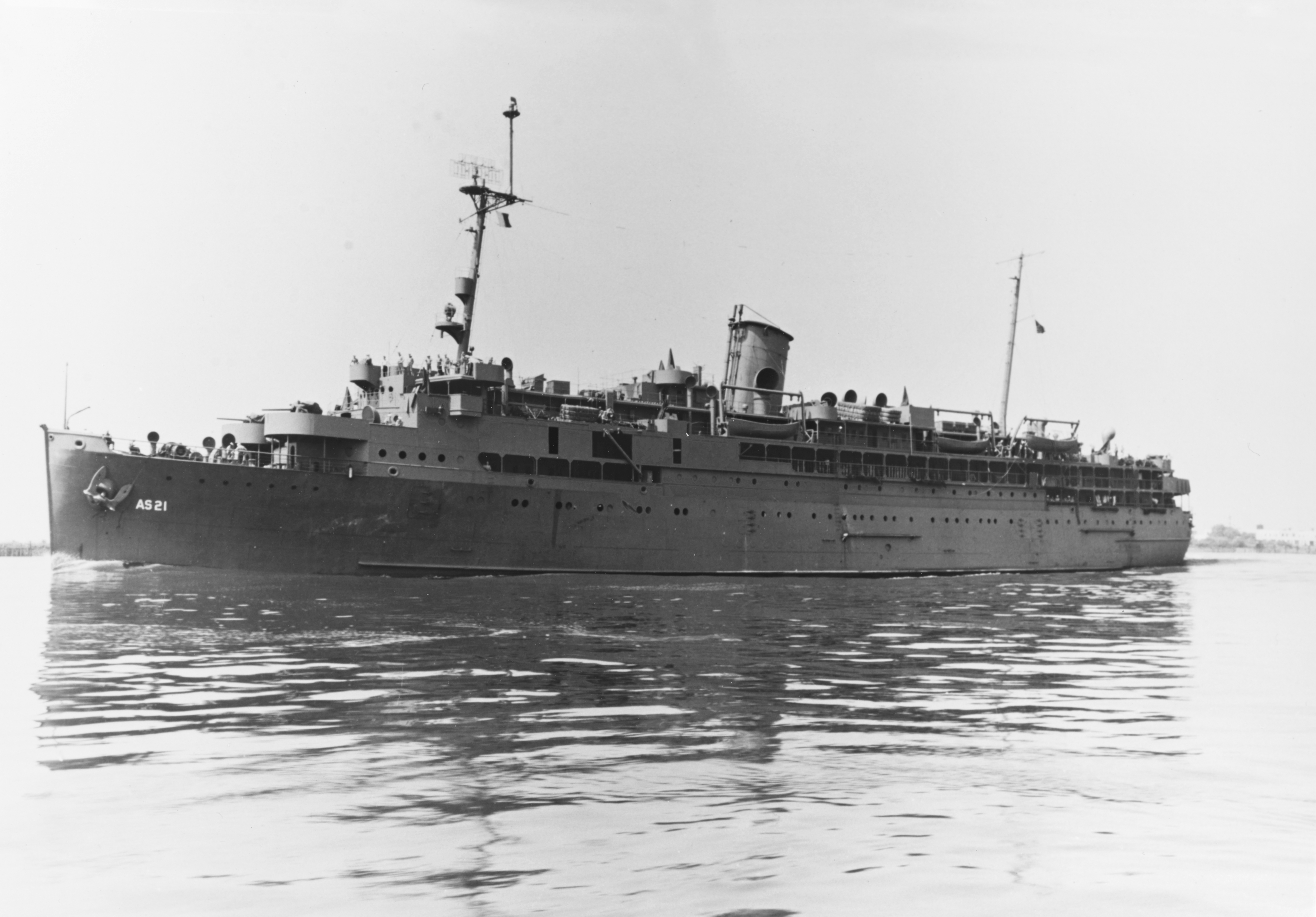 The U.S. Navy submarine tender USS Antaeus (AS-21) underway off the Philadelphia Naval Shipyard, Pennsylvania (USA), on 25 June 1943, after an overhaul. During this overhaul her armament was upgraded to one 4/50 gun and two 3/50 guns aft and two 3/50 guns forward, visible here.